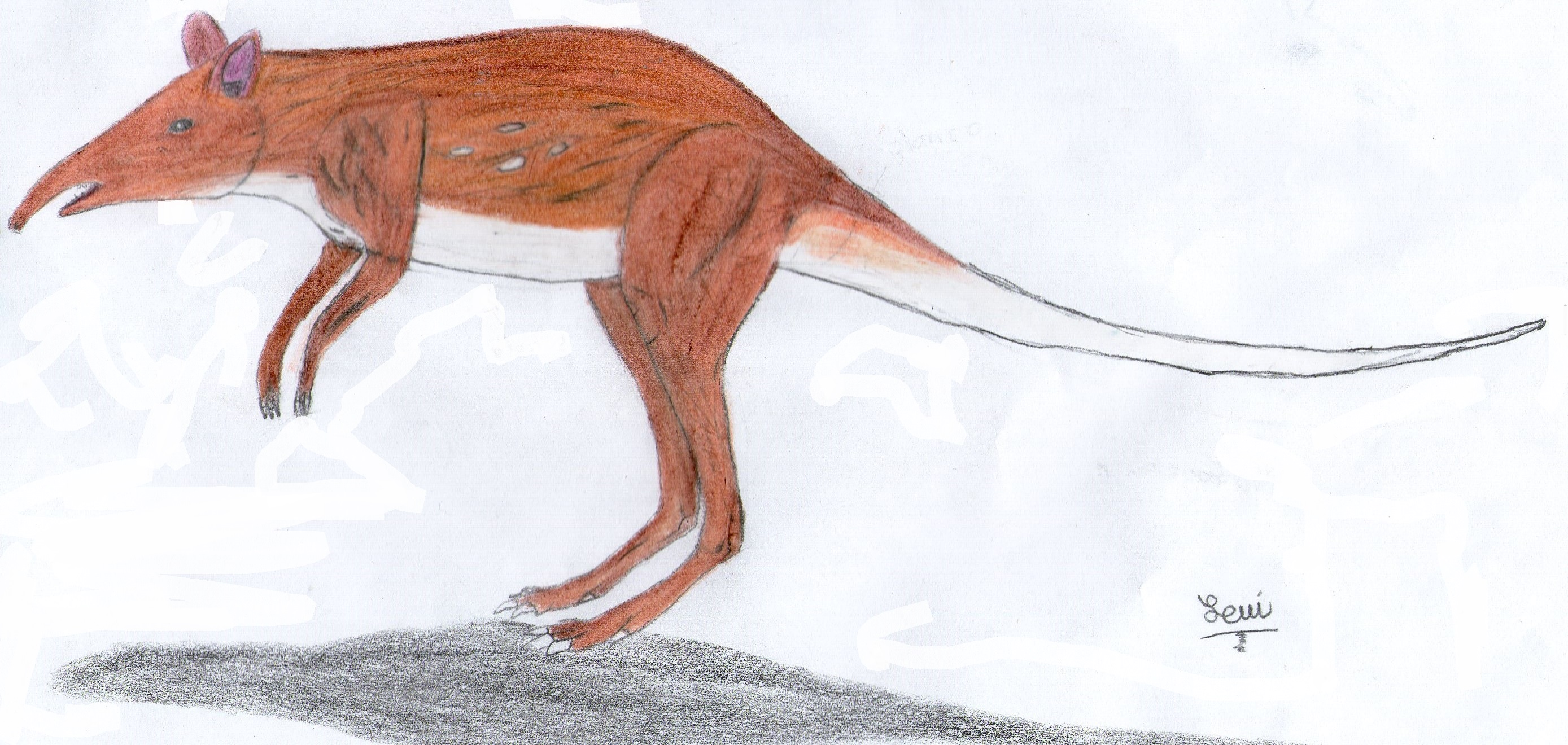 restauration the Leptictidium nasutum